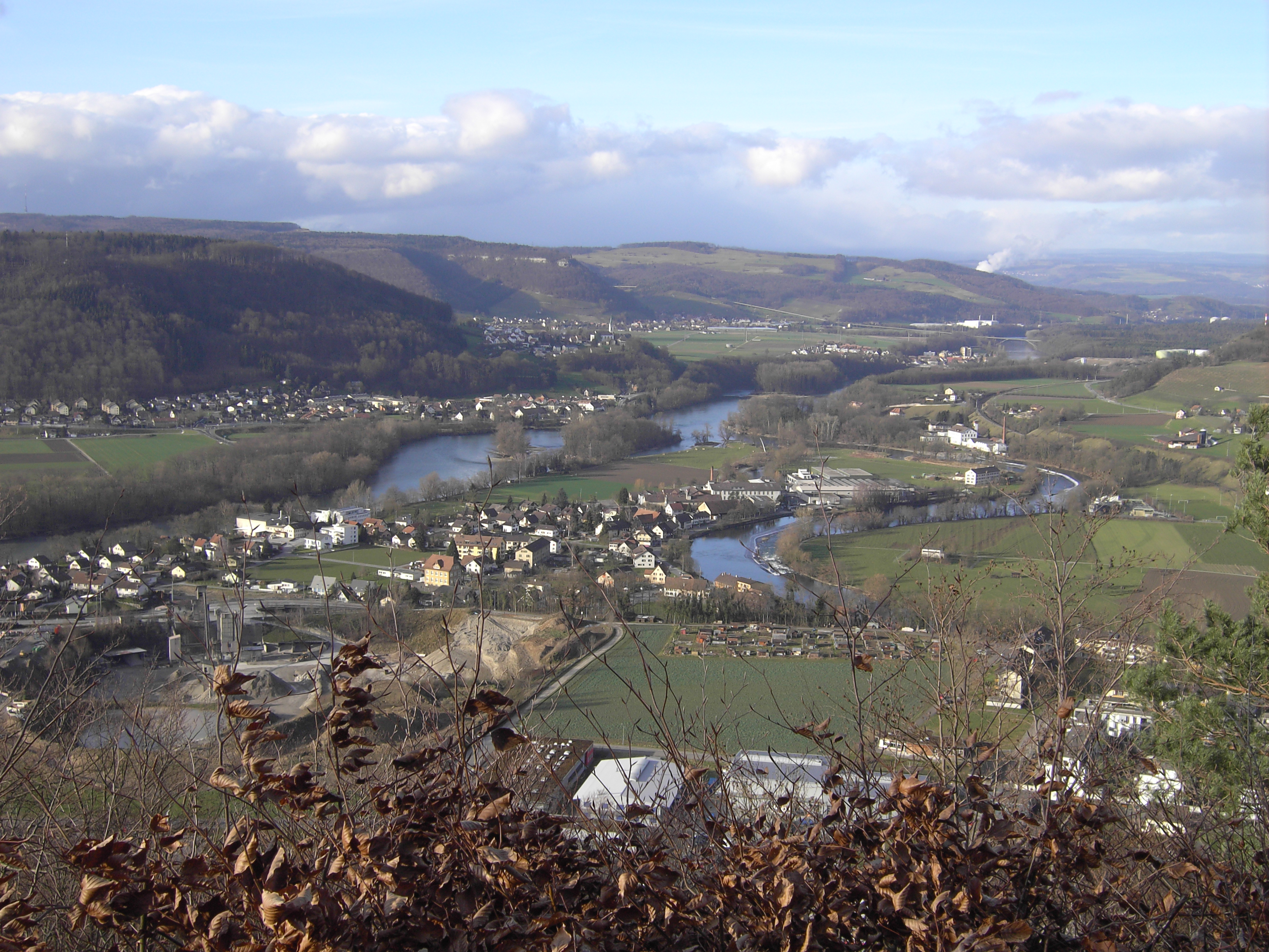 Gebenstorf-Vogelsang and the Swiss "Wasserschloss"